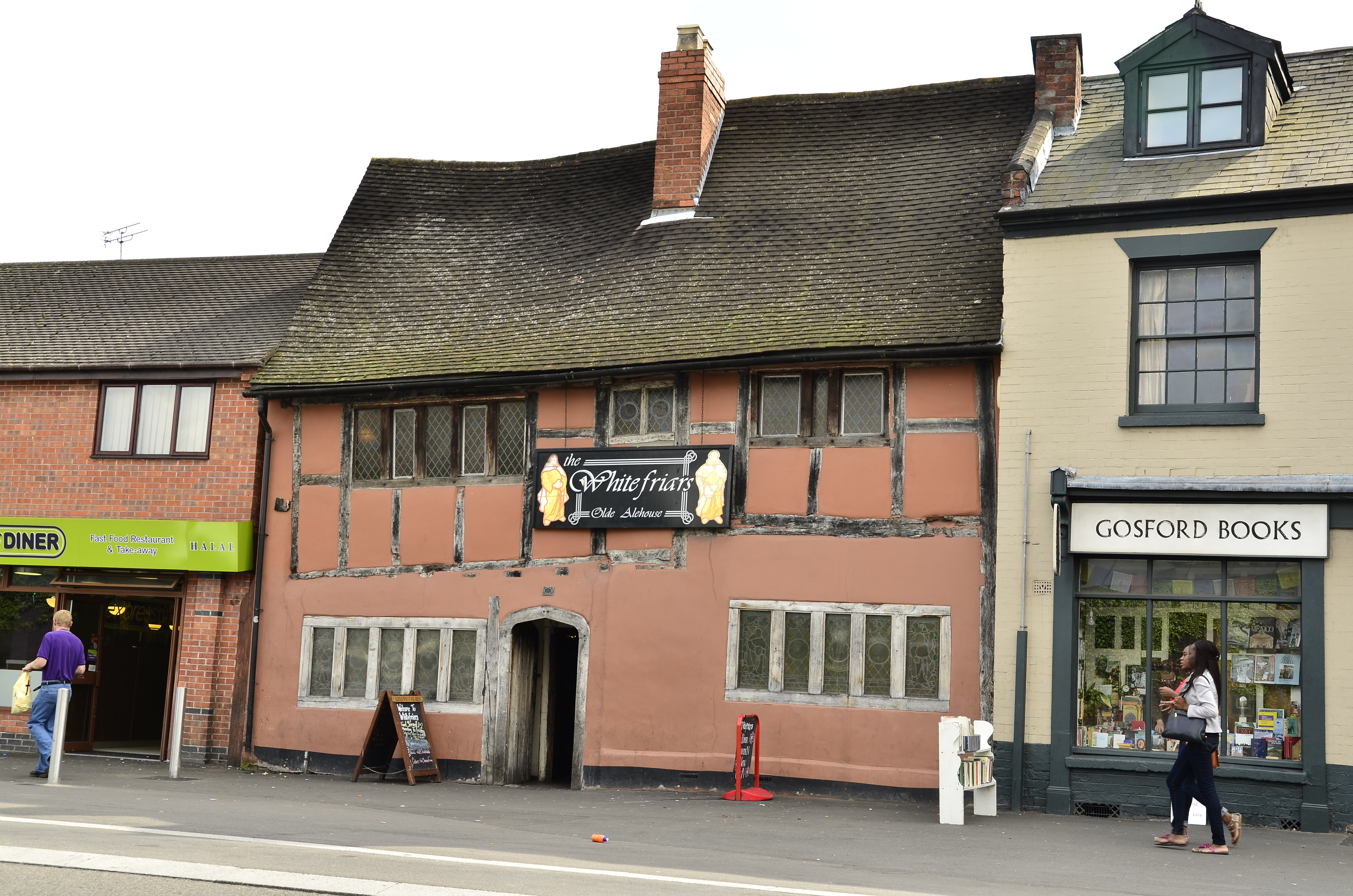 A15 - Whitefriars Ale House in Coventry, UK